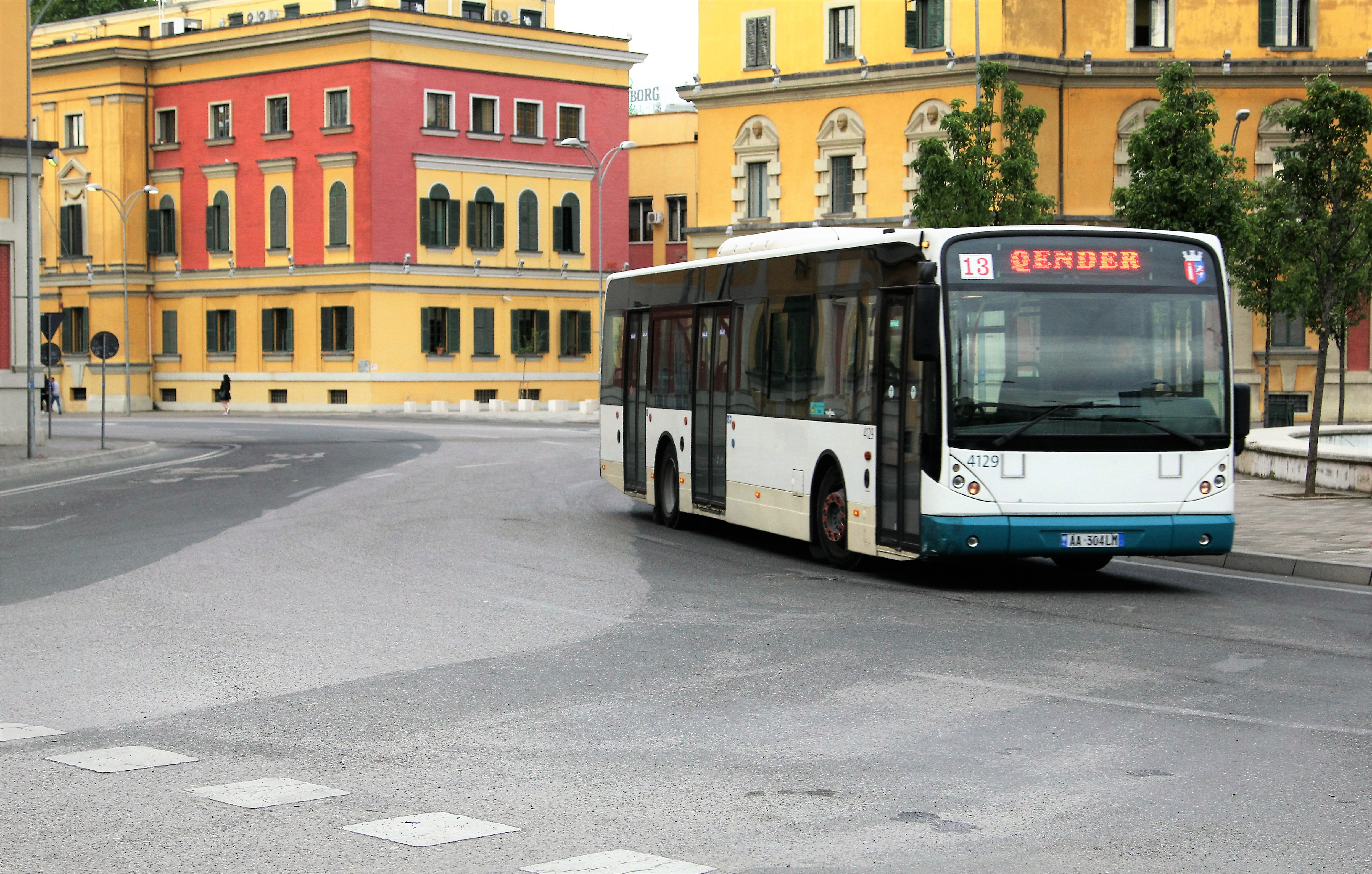 A formerly Dutch Van Hool new A330 bus in Tirana.